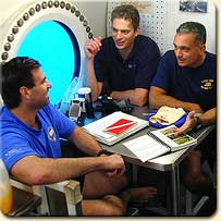 Aquanauts Gregory Chamitoff, Jonathan Dory and John D. Olivas inside the Aquarius underwater laboratory during the NEEMO 3 mission in July 2002.